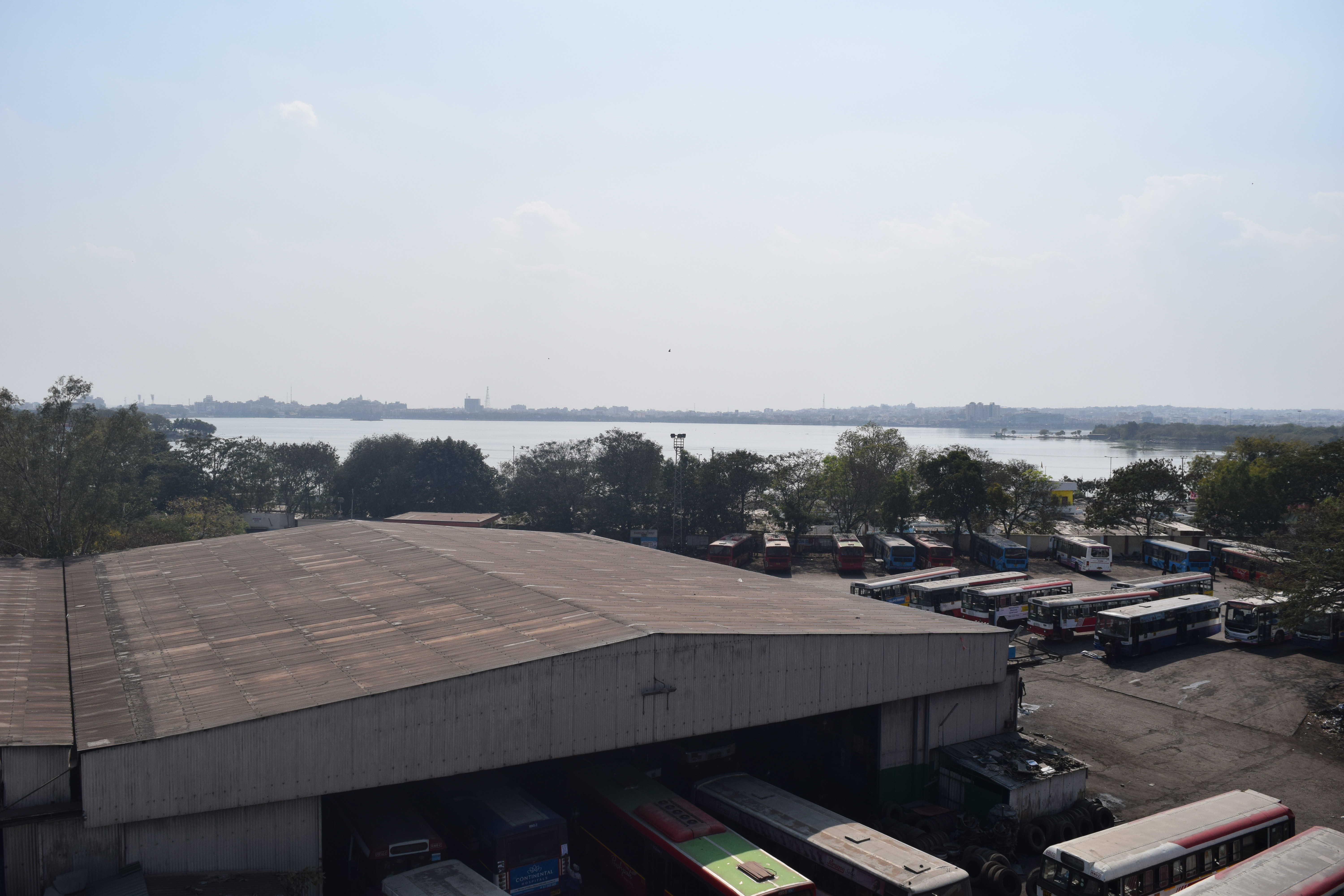 Hussain Sagar as seen from James Street railway station in Hyderabad, India. Seen in the foreground is Ranigunj Bus Depot